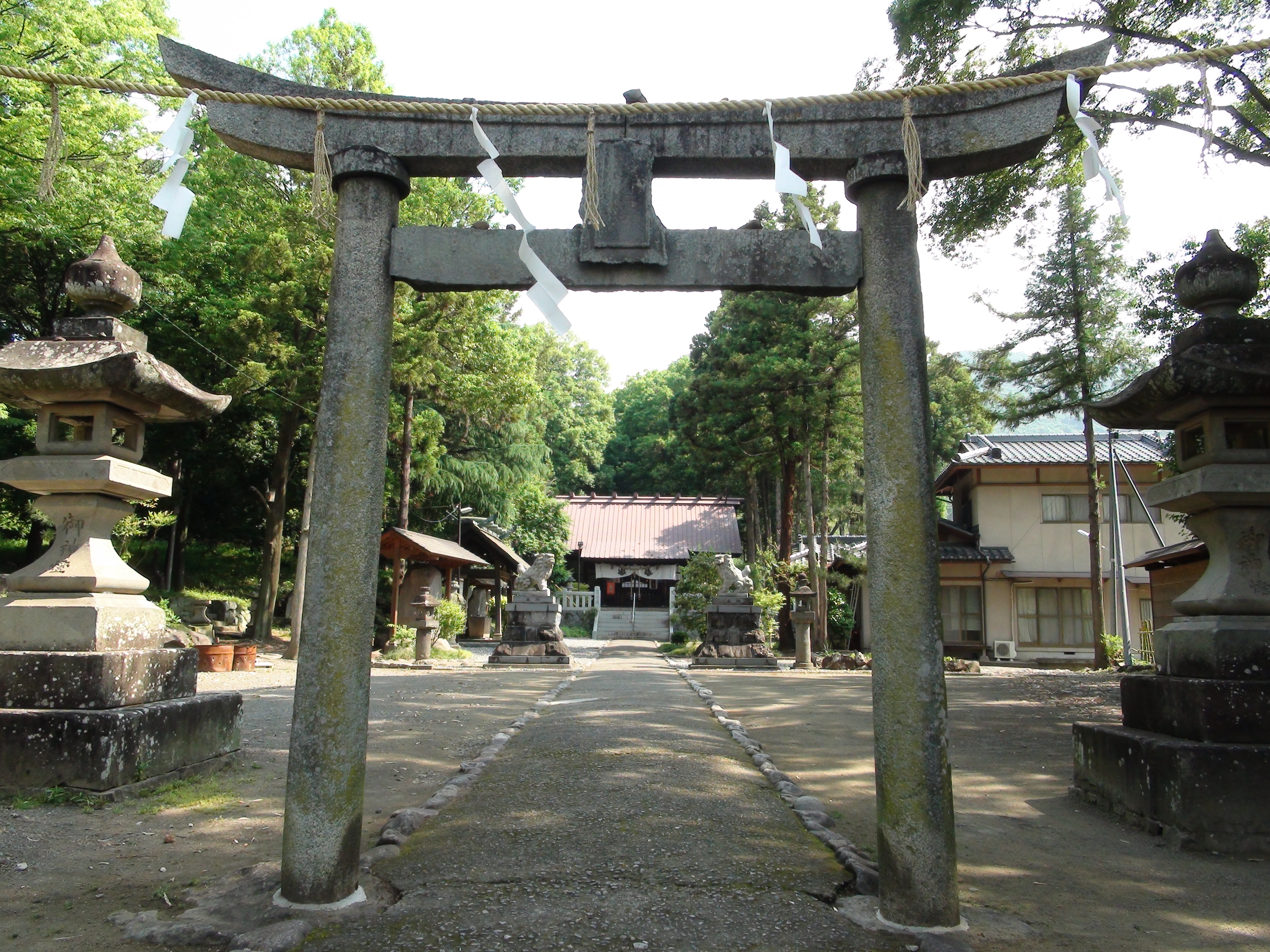 Sakaorimiya Shrine Whole view